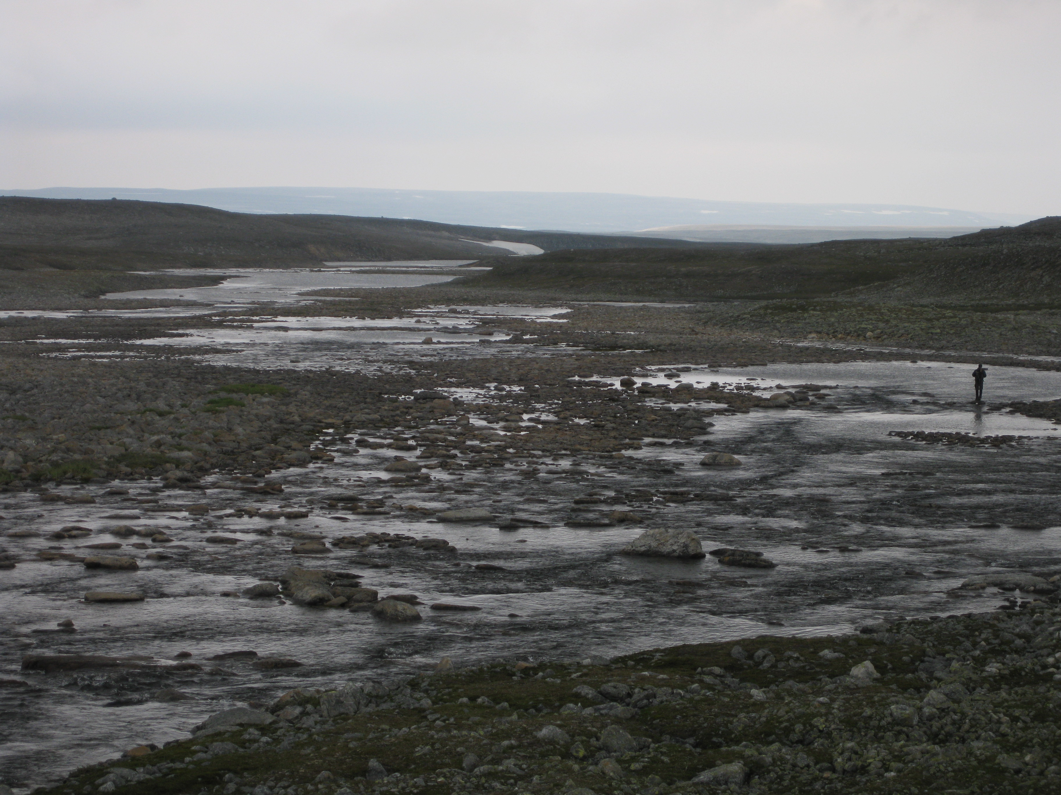 View north along Stuorrajohka in Lebesby, Finnmark, Norway. Geotag approximate